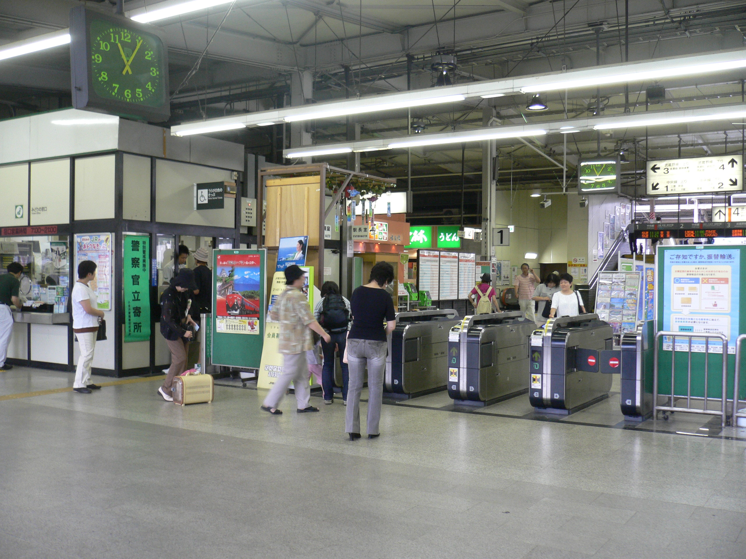 Nishi Kokubunji Station, Kokubunji, Tokyo M.